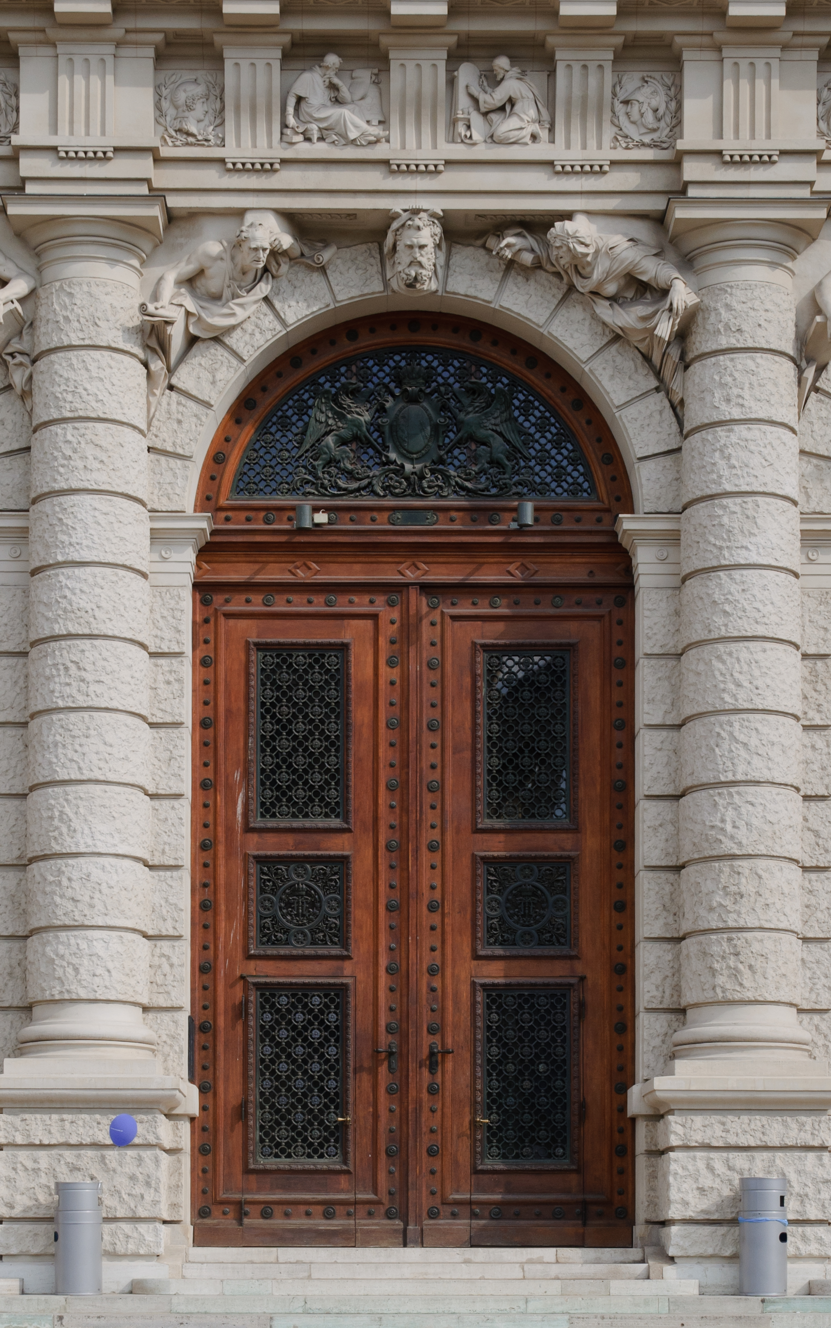 Kunsthistorisches Museum detail of the main entrance, Vienna.